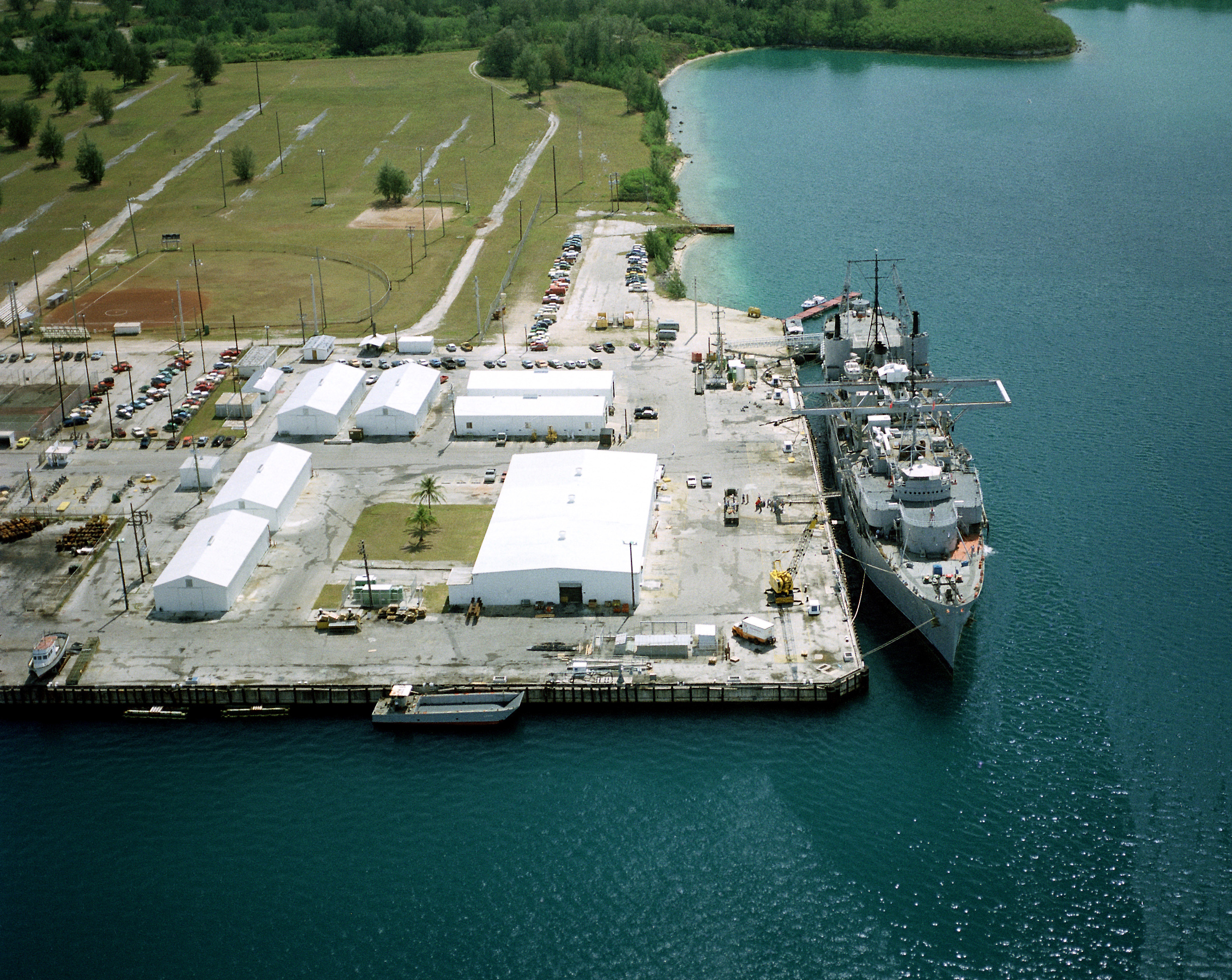 The U.S. Navy submarine tender USS Proteus (AS-19) moored in Apra Harbor, Guam.